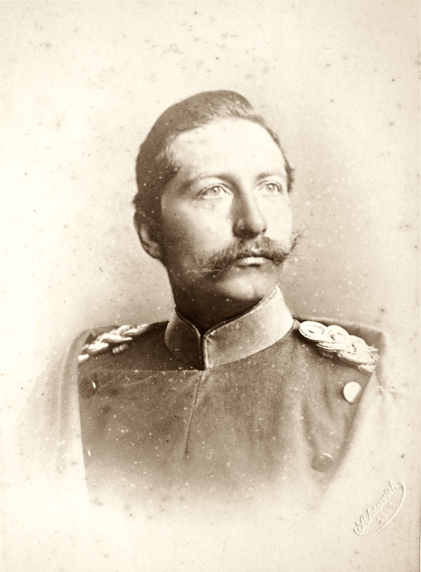 Wilhelm II. emperor of germany